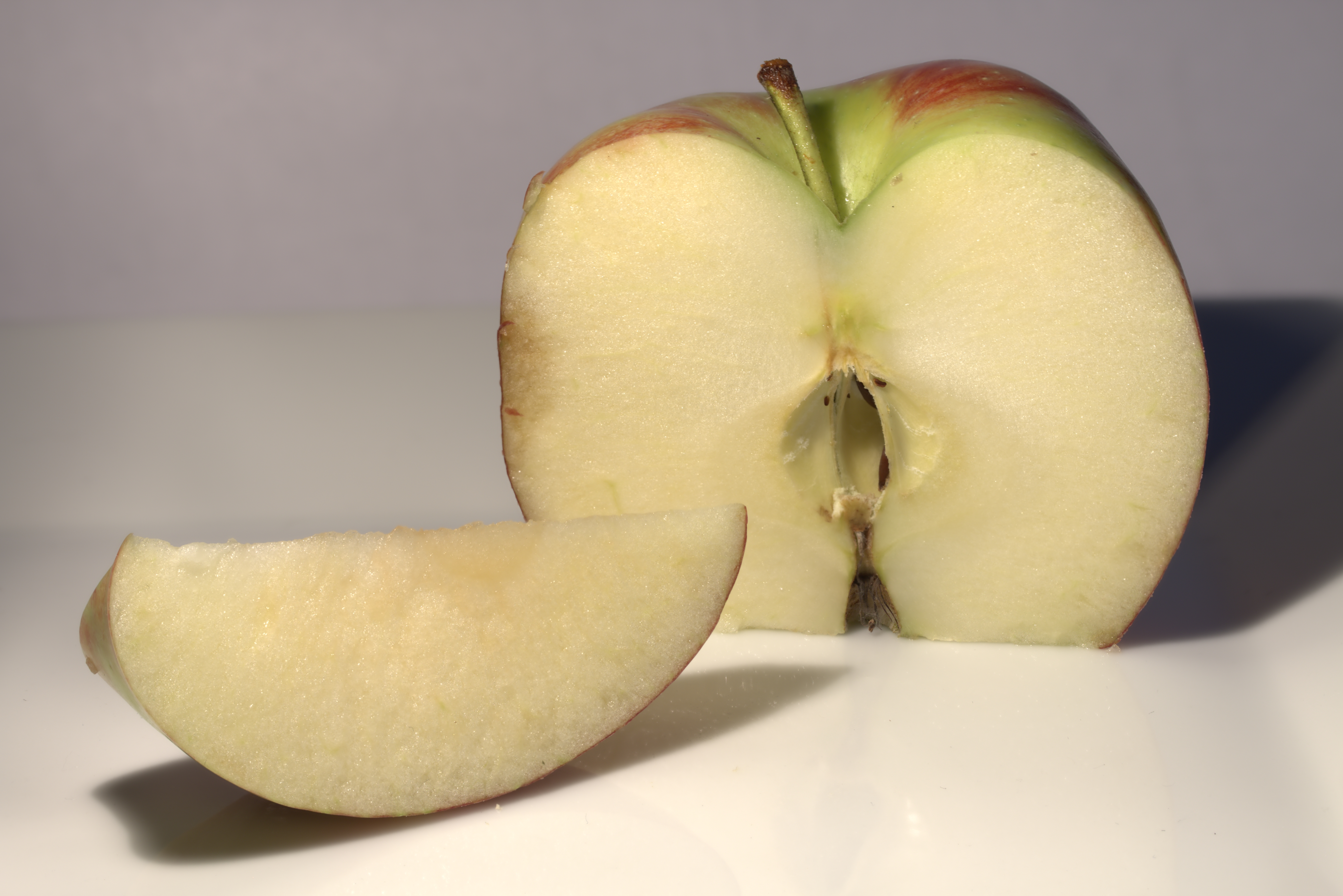 Jonagold